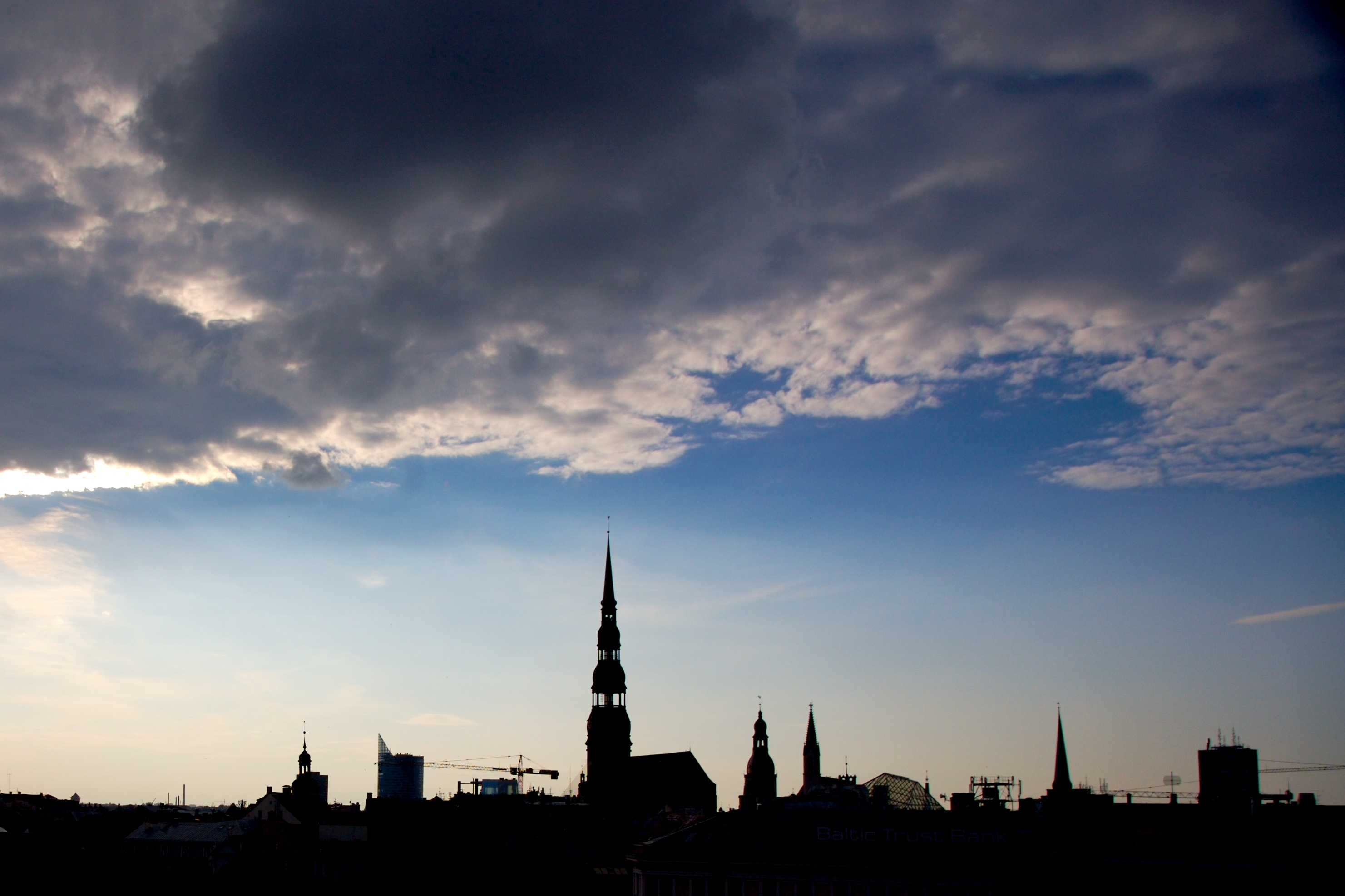 View from last floor of Riga Forum.